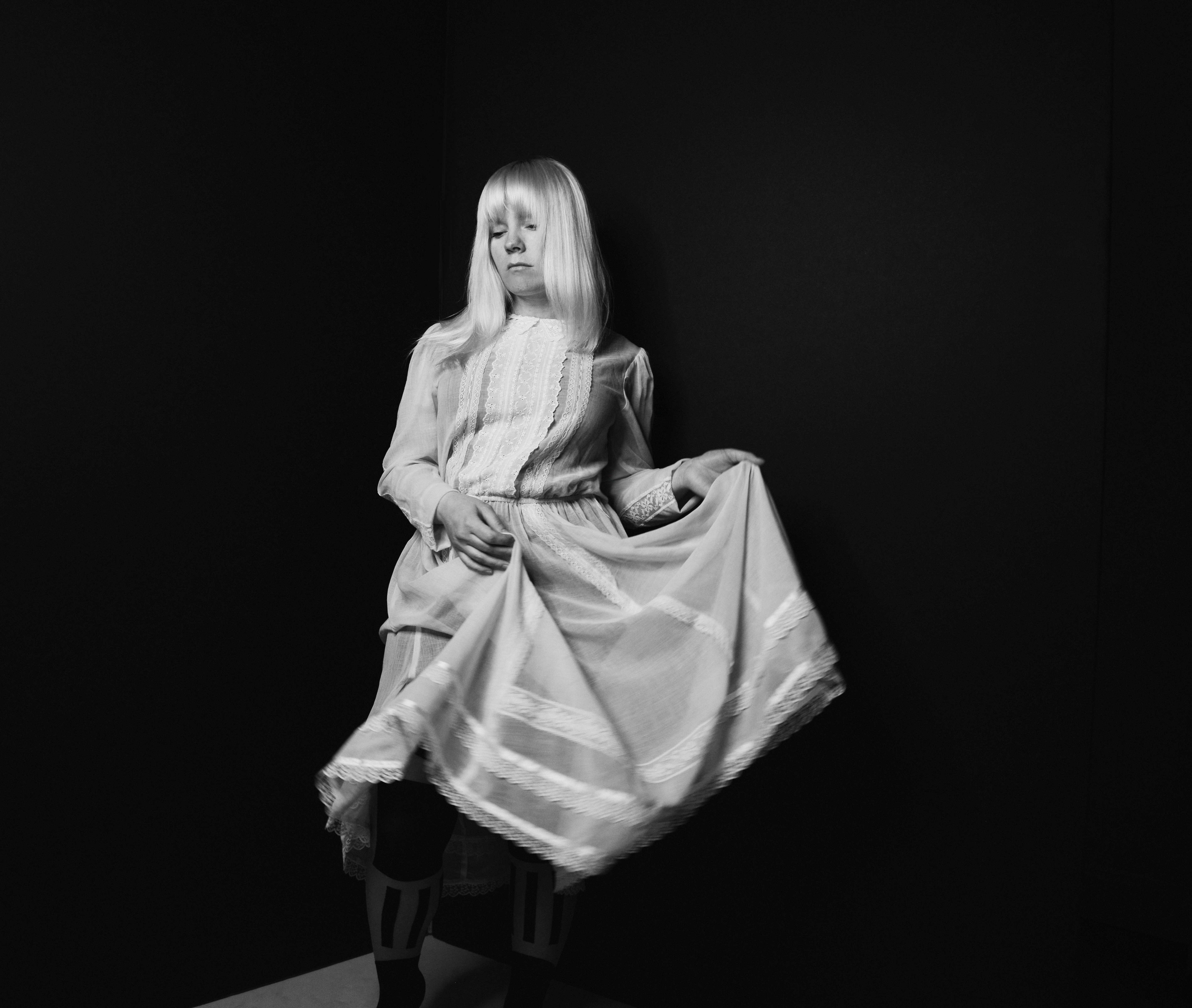 Janel Leppin in 2016 the year she released her first solo records Mellow Diamond and Songs for Voice and Mellotron. Photography by Shervin Lainez, Brooklyn, New York.